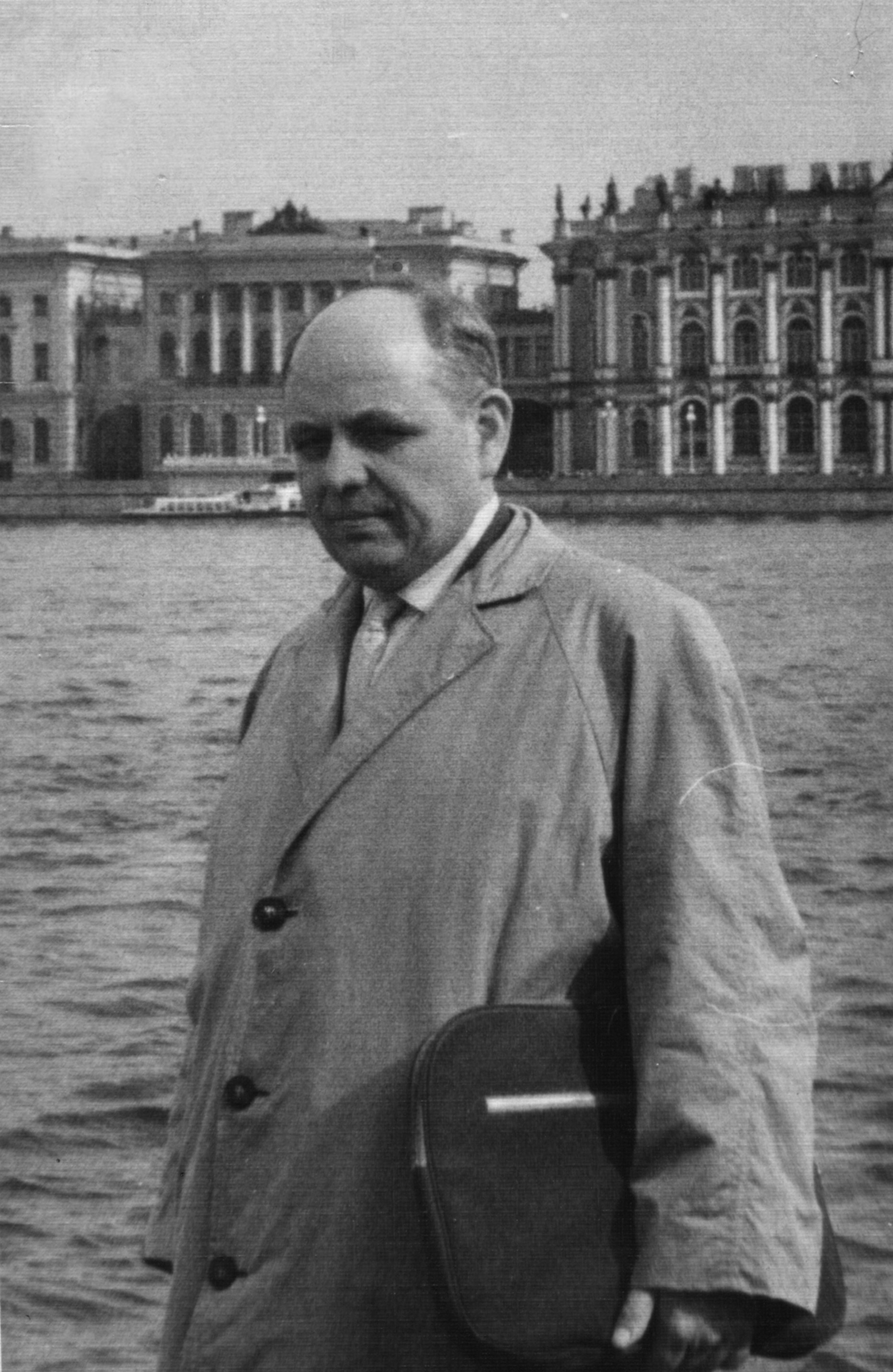 Boris Christoff Nedkov a Bulgarian scholar - historian and orientalist